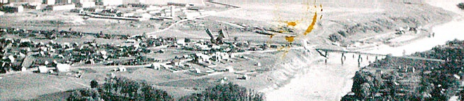 Bird's eye view of old Žirmūnai